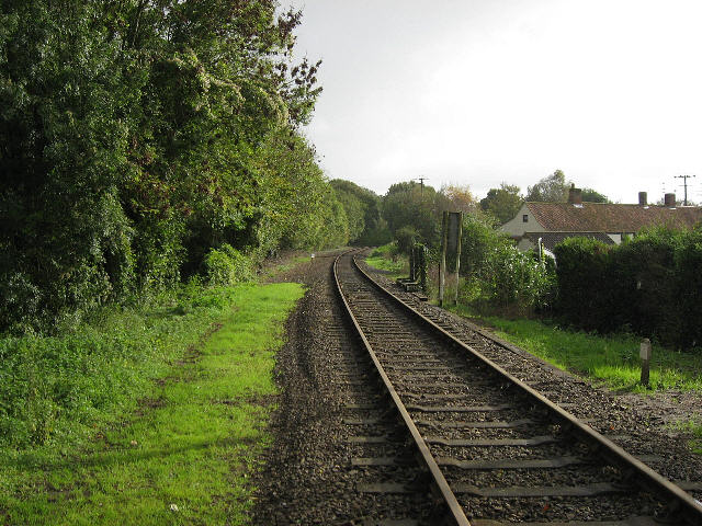 Mid-Norfolk Railway Running South-east from Thuxton.